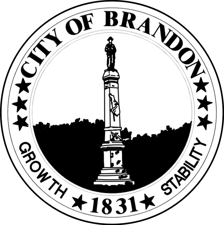 The Rankin County Confederate Monument in the center with the year the city was established and name of town.